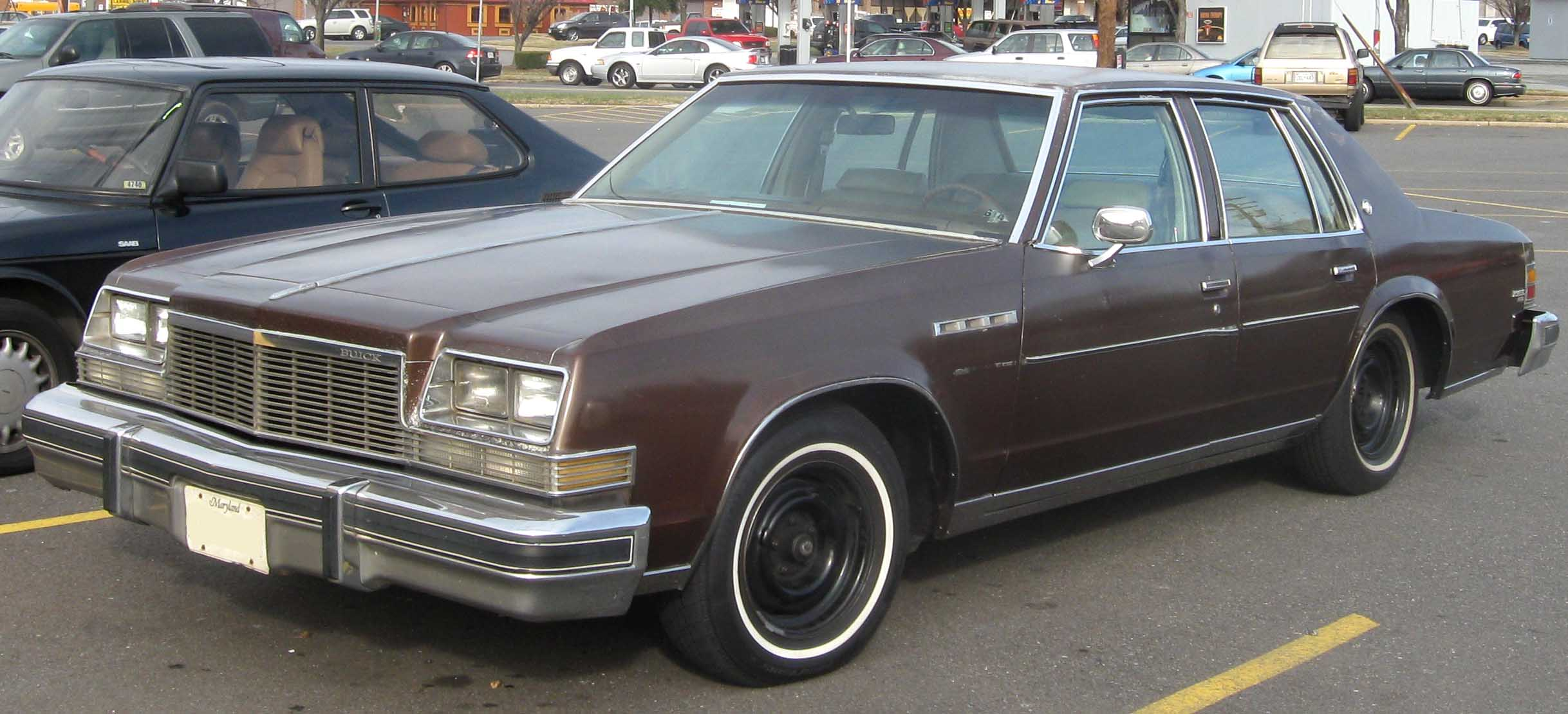 1977 Buick LeSabre photographed in Oxon Hill, Virginia, USA.